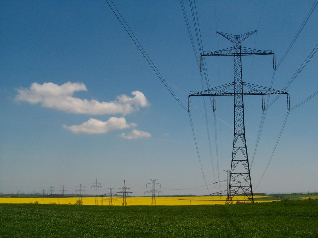 Wiring in country, somewhere in the Czech Republic